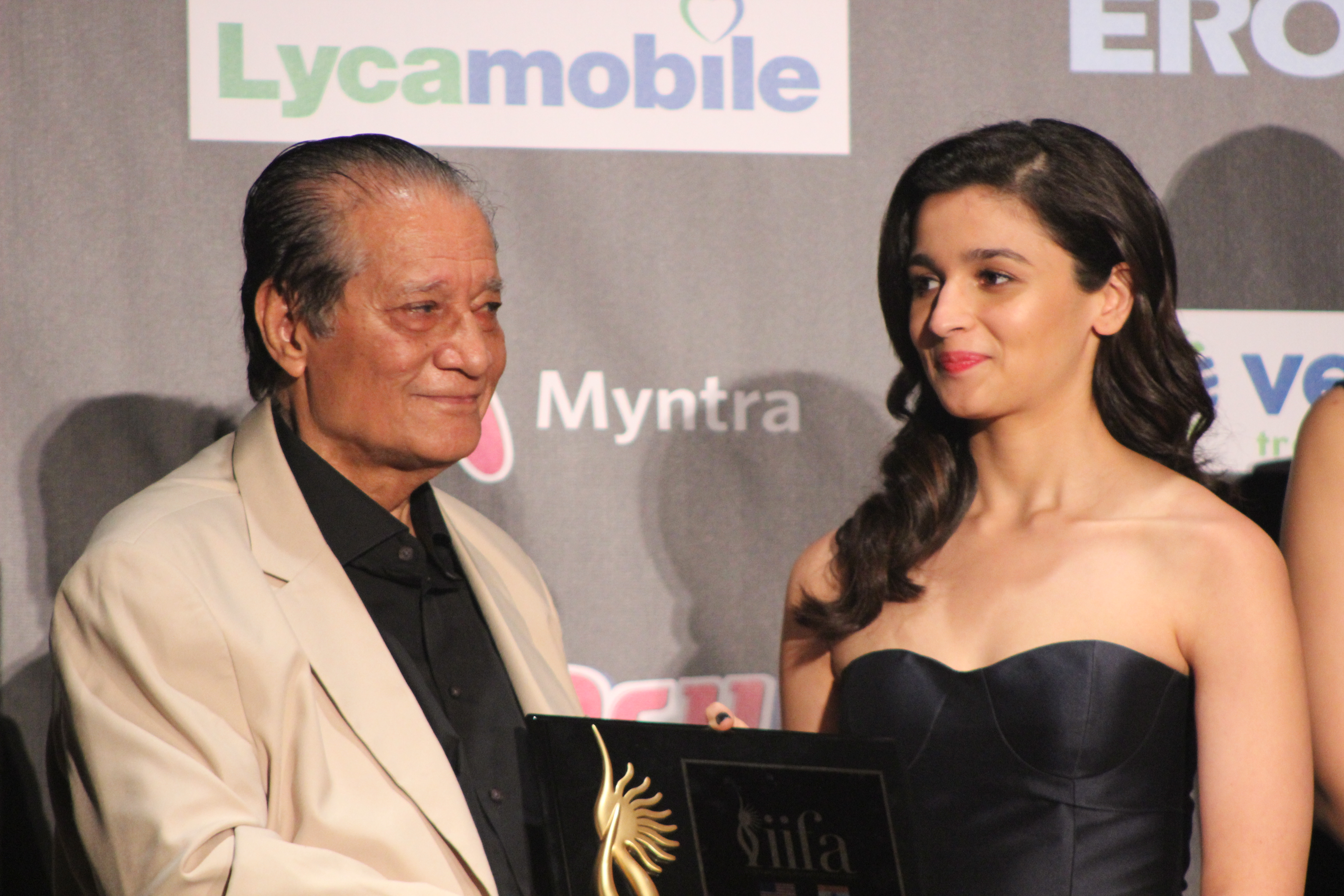 Alia Bhatt at the IIFA Awards 2017